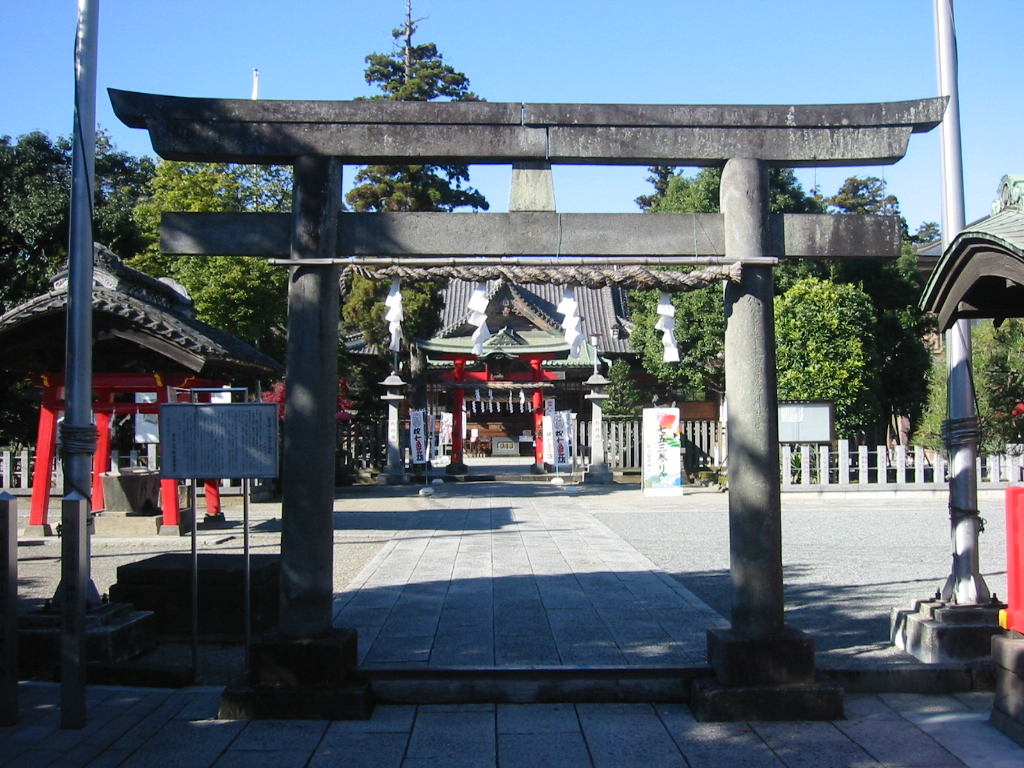 This is a picture of Yakyuu_inari_shrine.